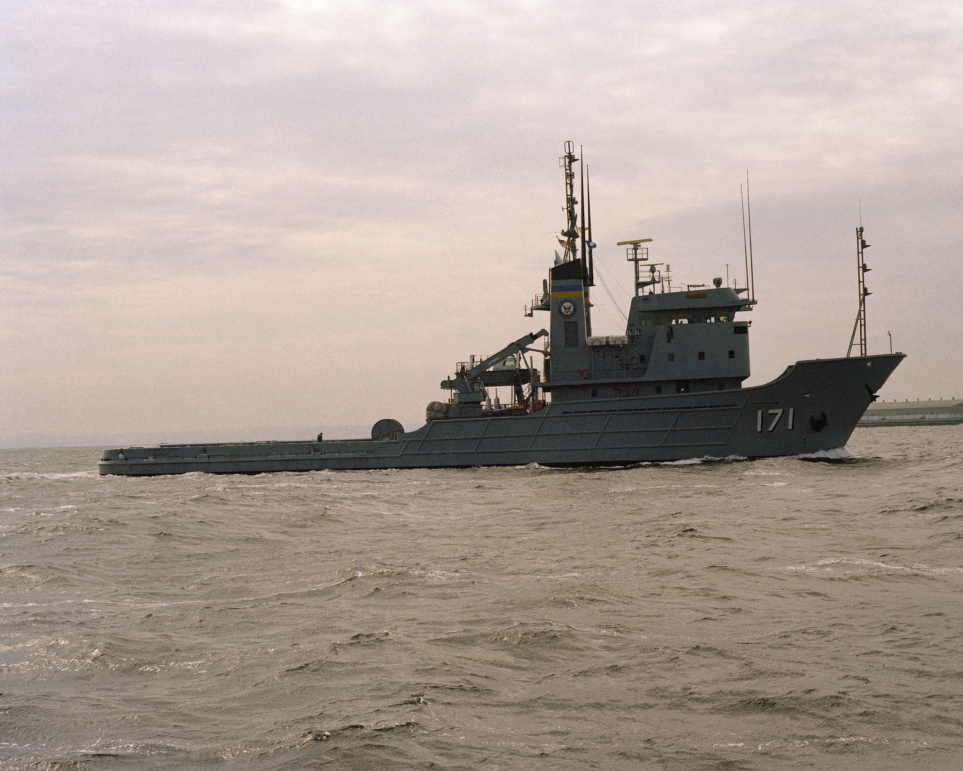 A starboard beam view of the U.S. Military Sealift Command fleet tug USNS Sioux (T-ATF-171) entering port at Yokosuka Naval Base, Japan.